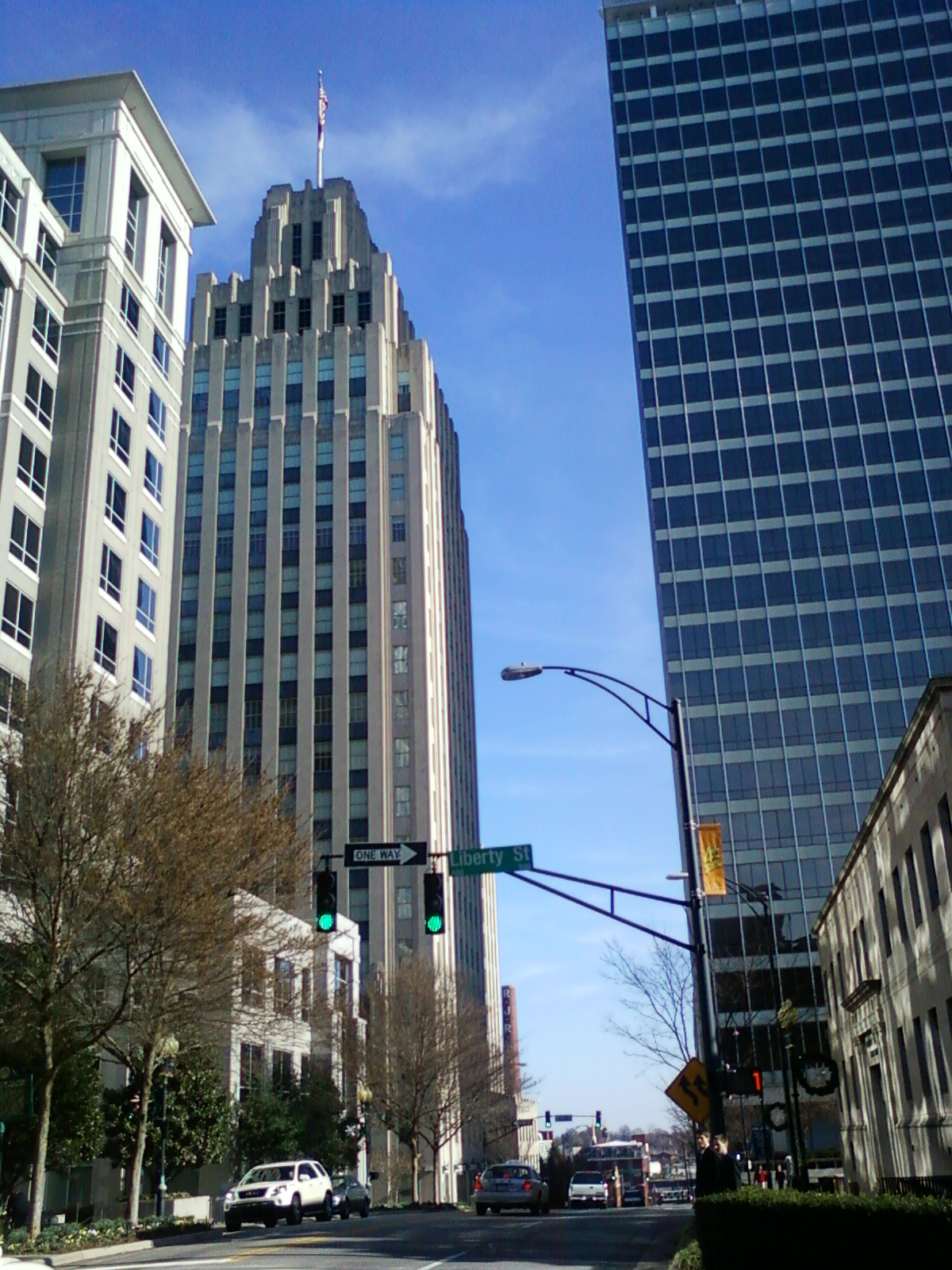 RJR has put its former HQ building up for sale. Built in 1929, the 21-story building was designed by the same architects (Shreve & Lamb) who later designed the Empire State Building in New York City.